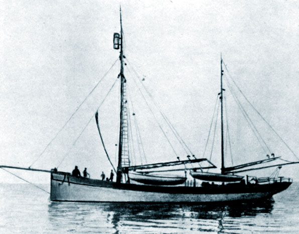 Photo made before 1912. The ketch of 1912-13 Arctic expedition led by geologist Vladimir Rusanov an captain Aleksandr Kuchin.